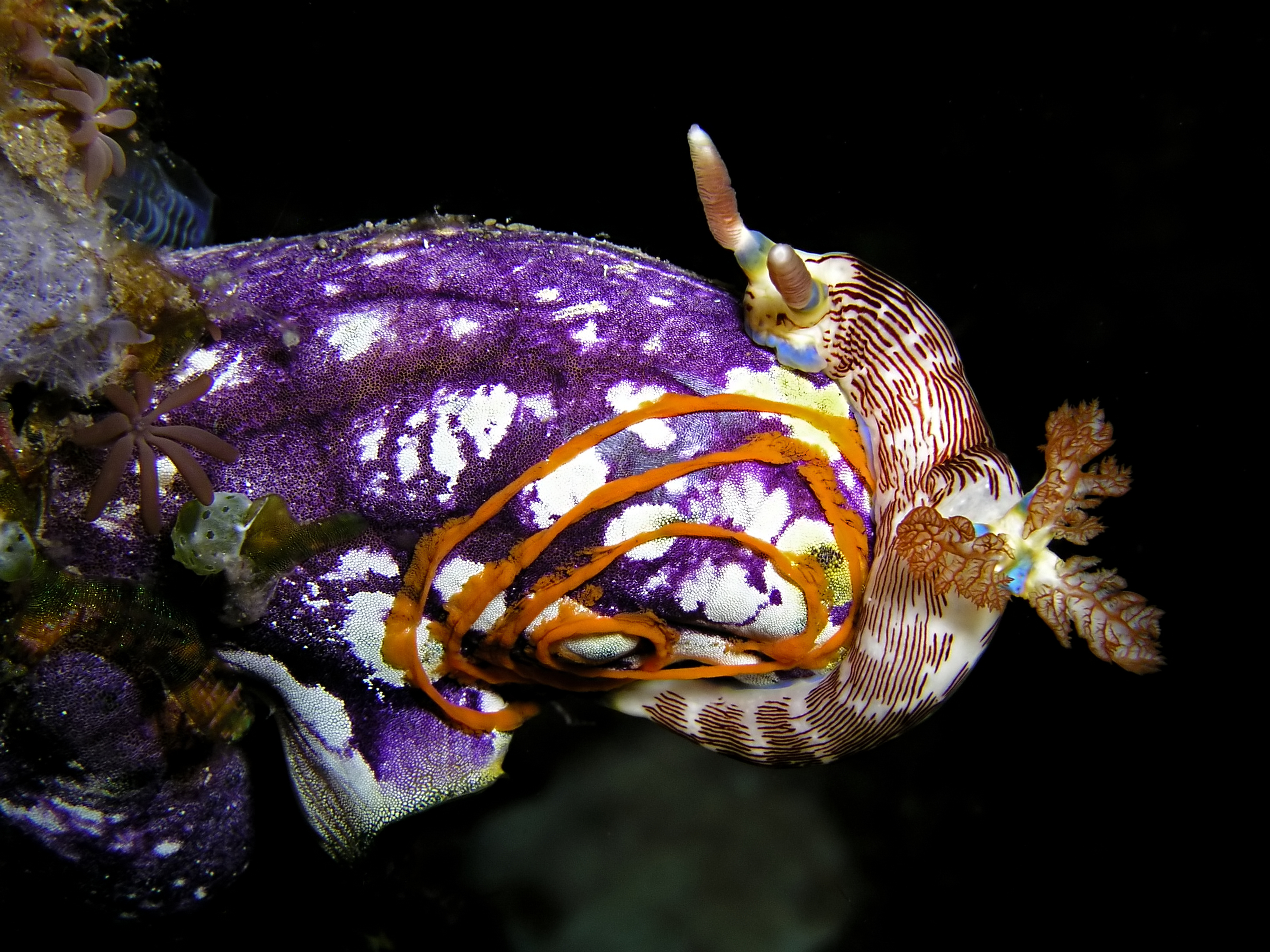 Nudibranch (Nembrotha lineolata) laying an egg spiral on a sea squirt (Polycarpa aurata) near Metinaro, East Timor.